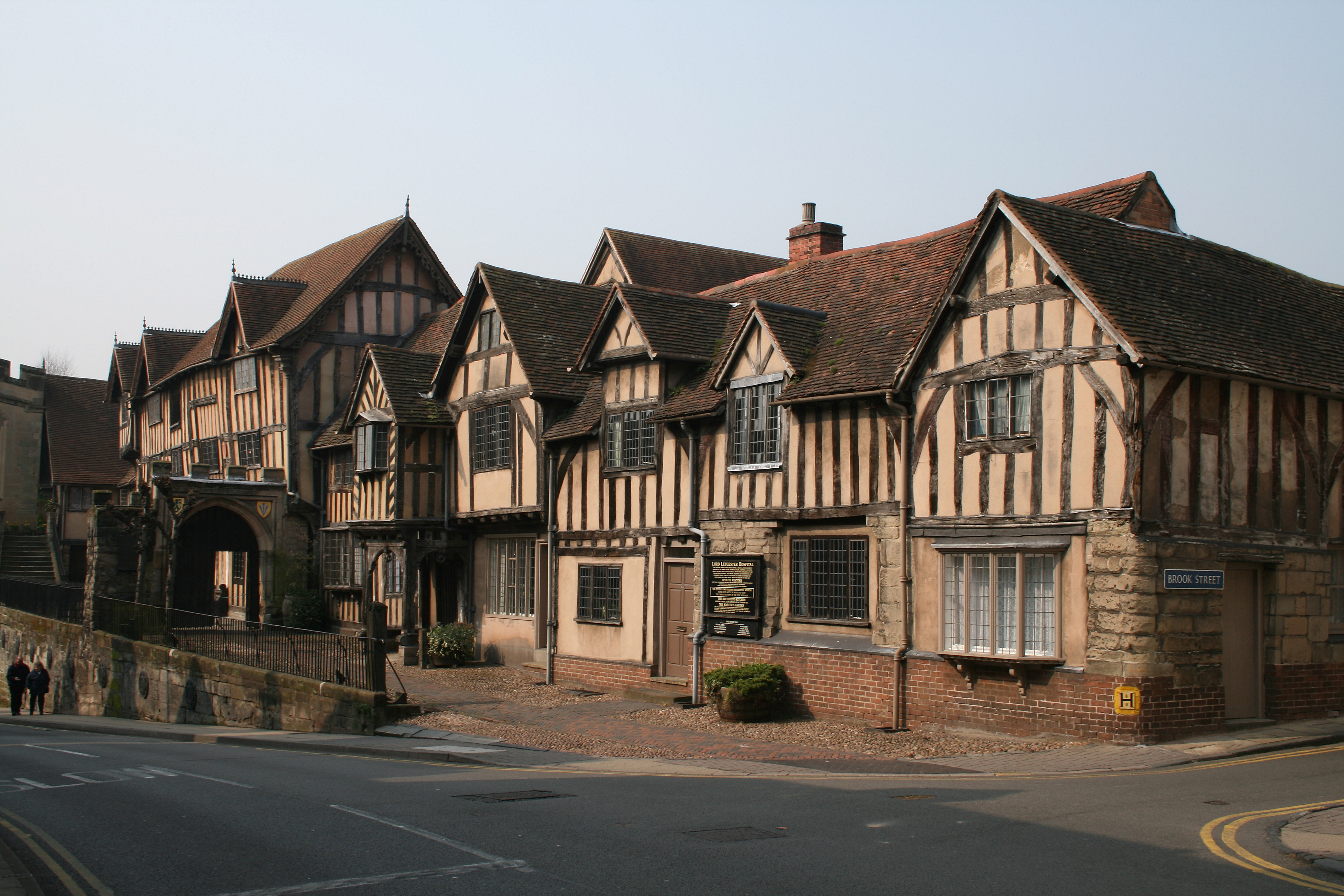 Lord Leycester Hospital, High Street, Warwick, England